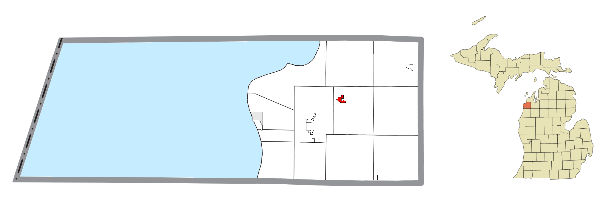 Honor, MI